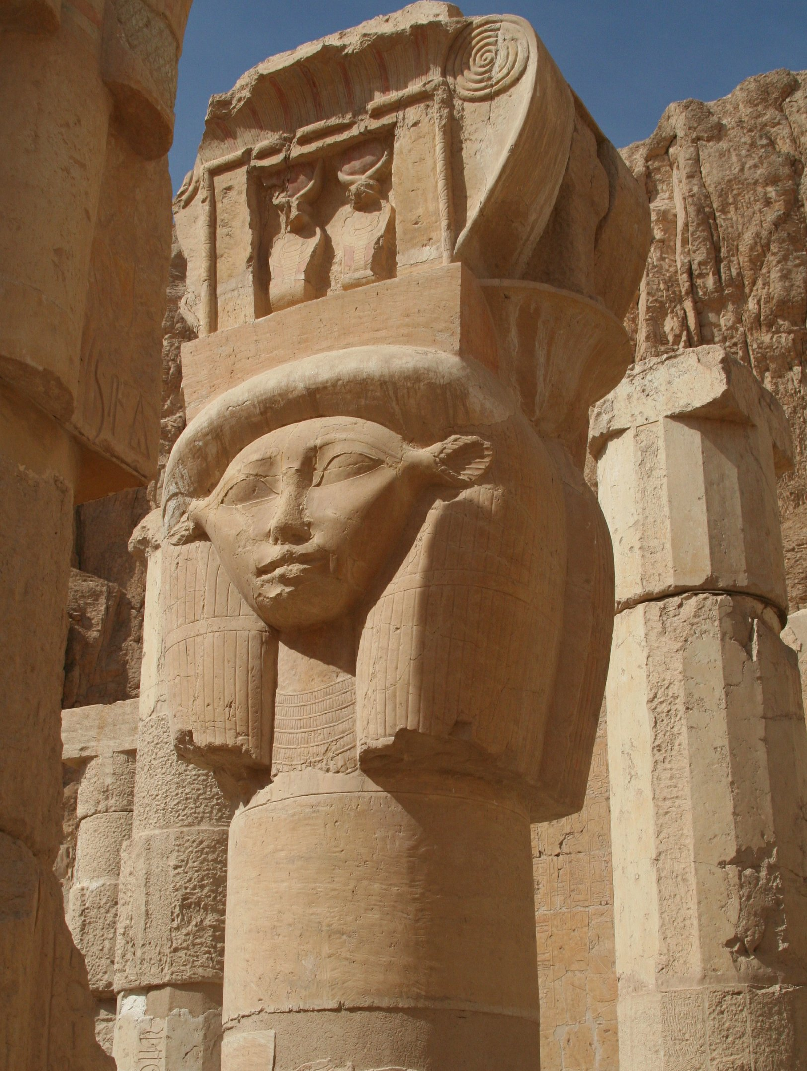 Temple of Hatshepsut, Luxor, Egypt. Hathor Column.